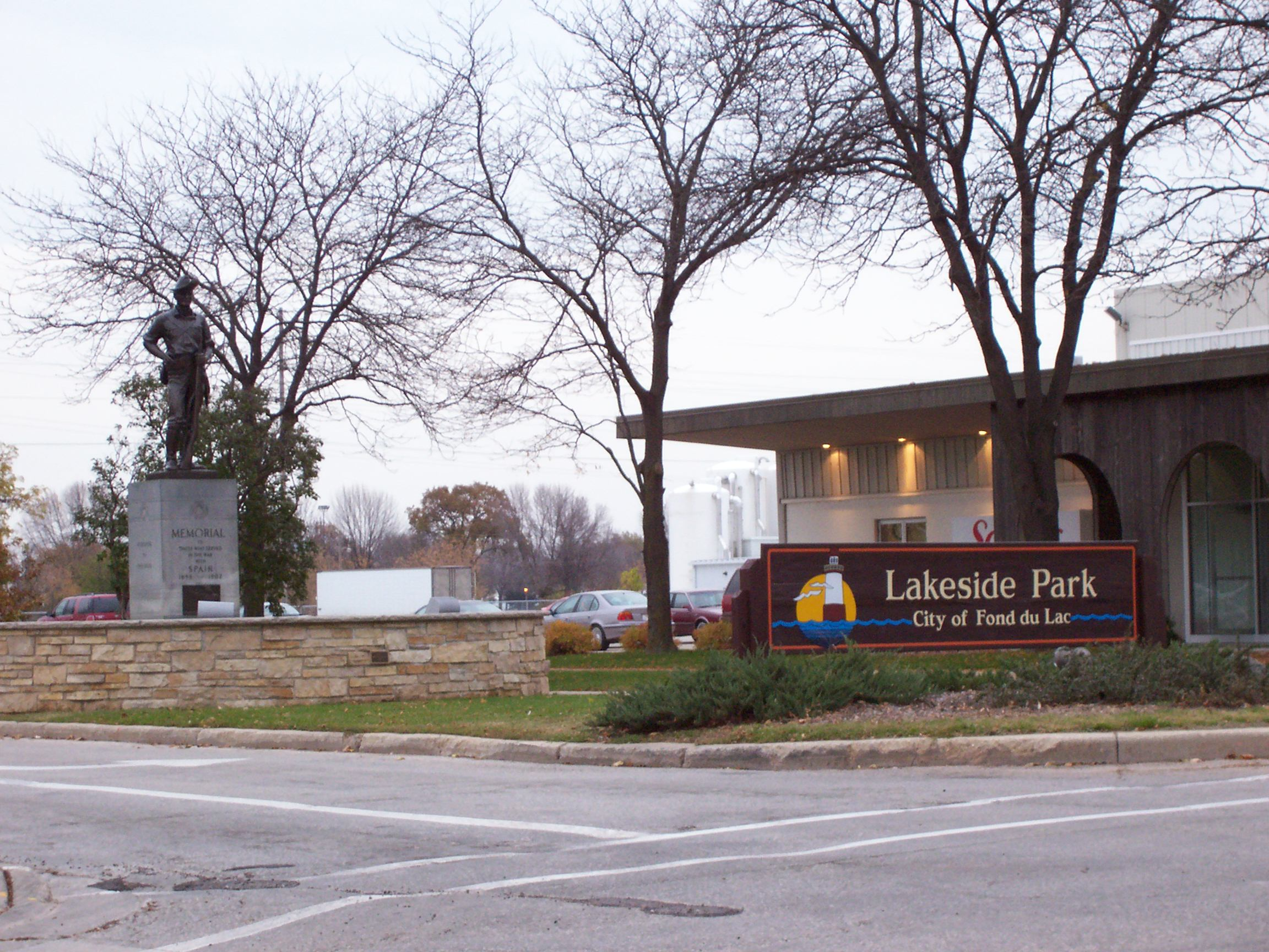 The entrance to Lakeside Park in Fond du Lac, Wisconsin, USA. Taken October 26 2006 by myself.